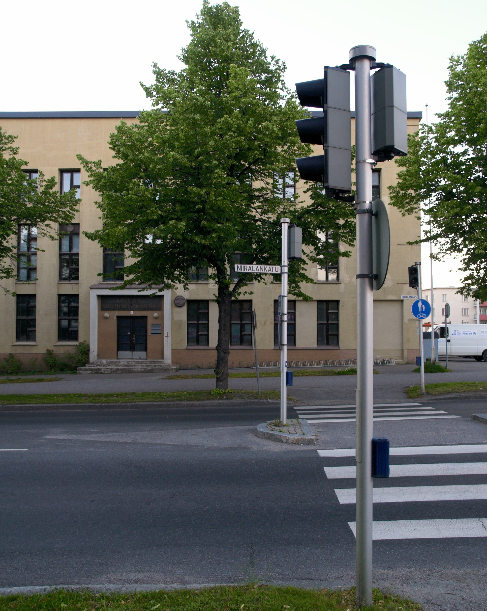 Turontalo at Niirala, Kuopio, Finland. Used by Kuopio Design Academy.